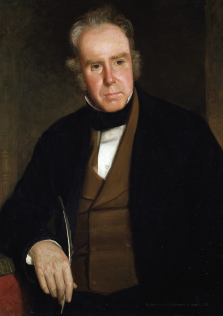 Portrait of Irish author William Carleton (1794-1869) by John Slattery (fl. 1850s)